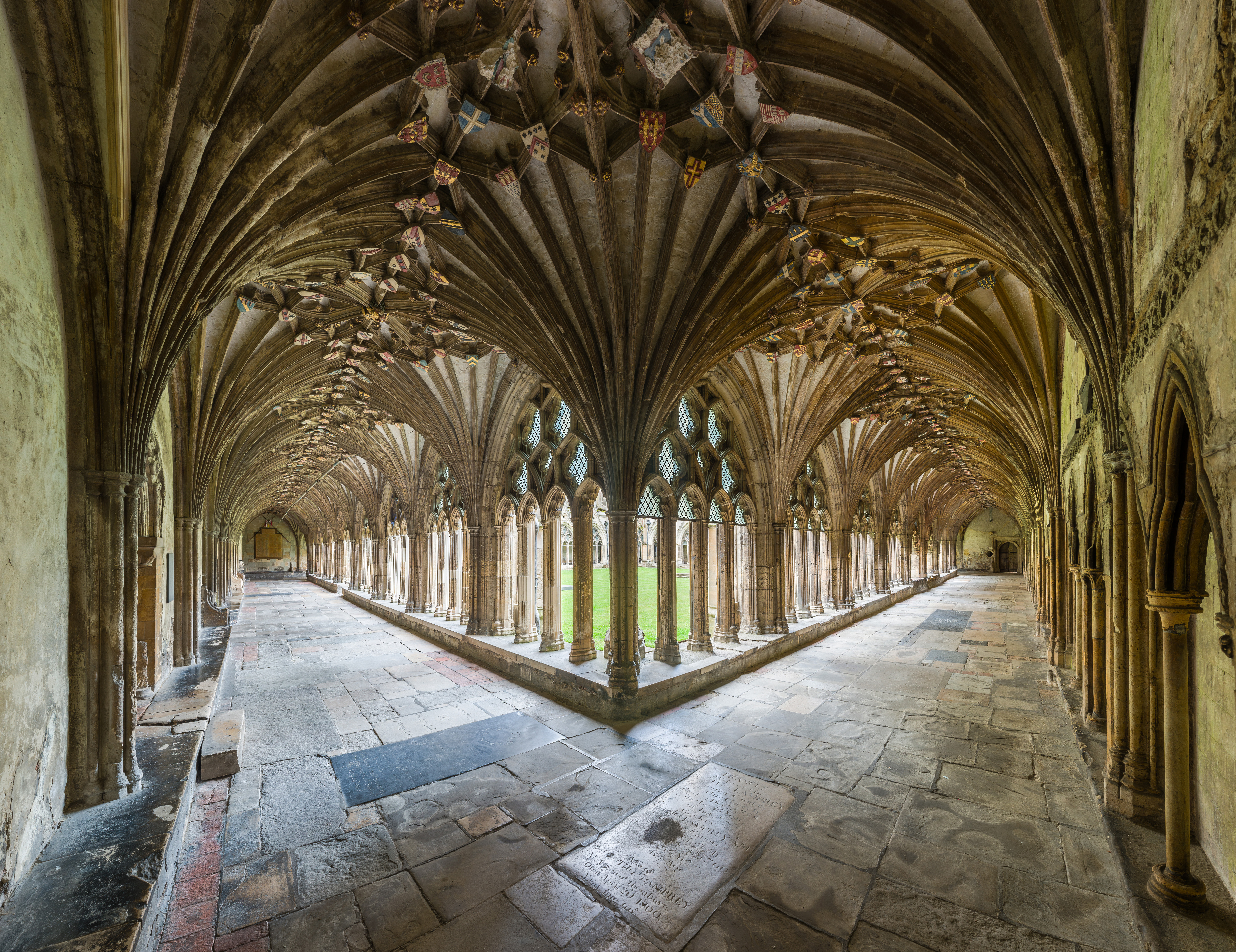 The cloisters of Canterbury Cathedral in Kent, England.